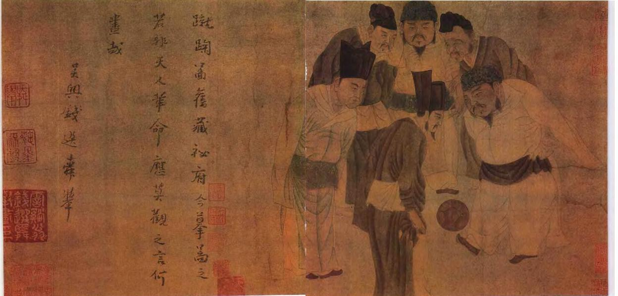 Emperor Taizu, Emperor Taizong, prime minister Zhao Pu and other ministers were playing Cuju